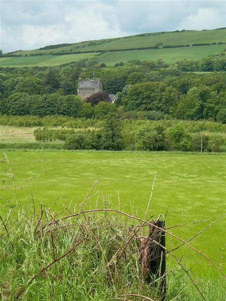 Towards Killochan Castle Looking across the Girvan Valley at a barley field near Hawkhill Farm. The Saltire is flying over Killochan Castle.